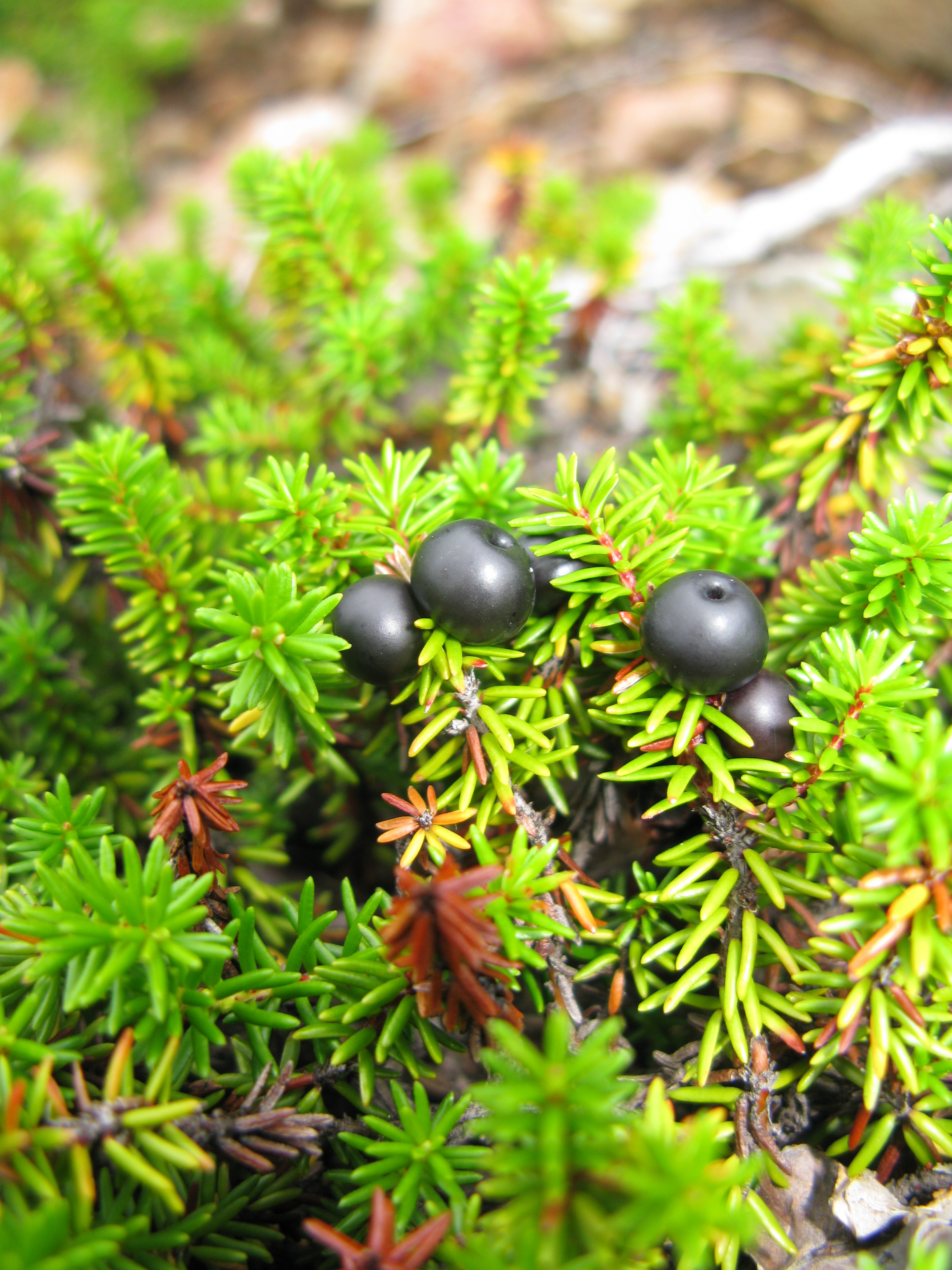 Empetrum nigrum subsp. asiaticum (Nakai ex H.Ito) Kuvaev, Mt. Higashi-Azumayama, Fukushima pref., Japan